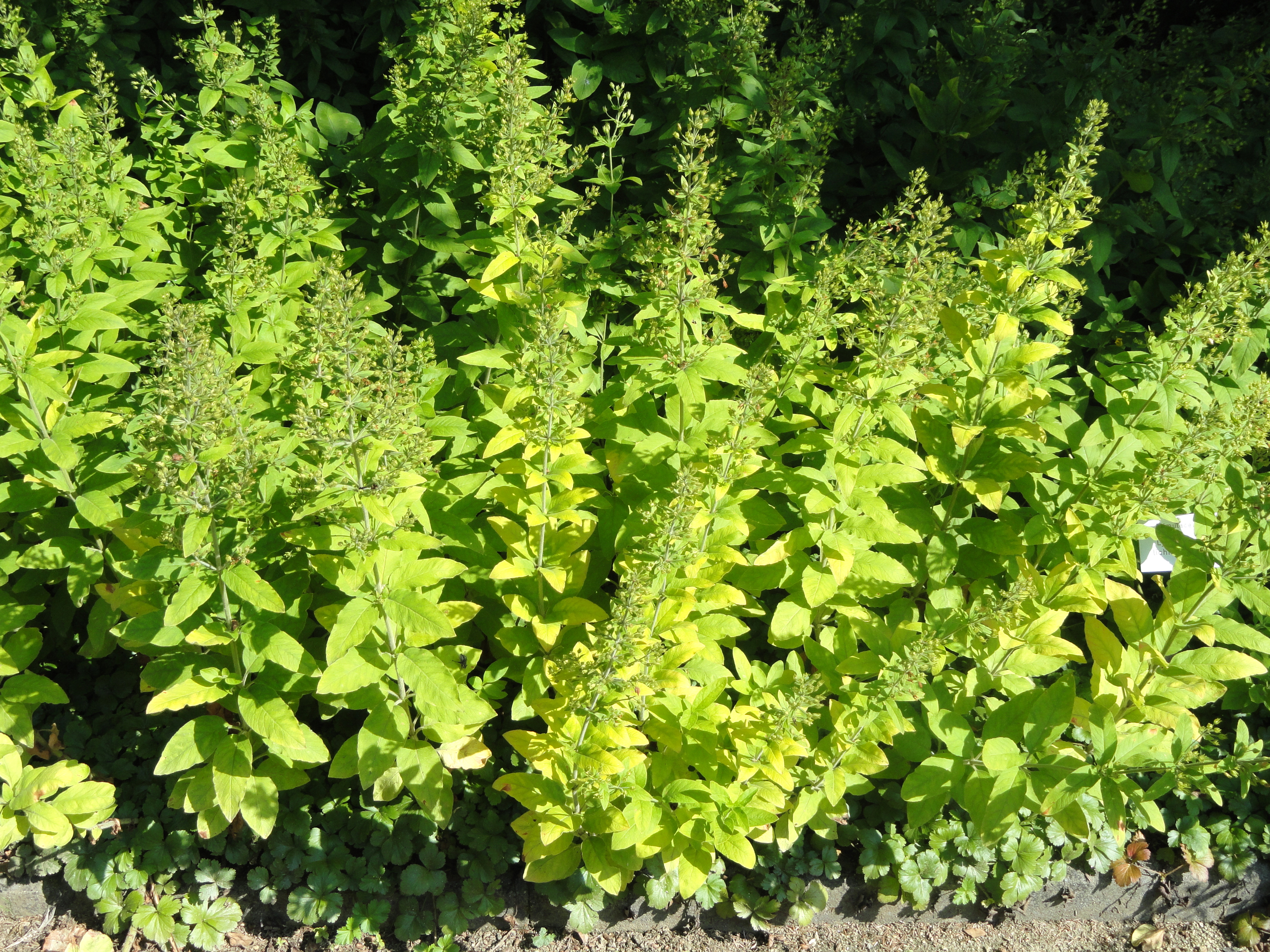 Botanical specimen in the Botanischer Garten, Frankfurt am Main, Germany.